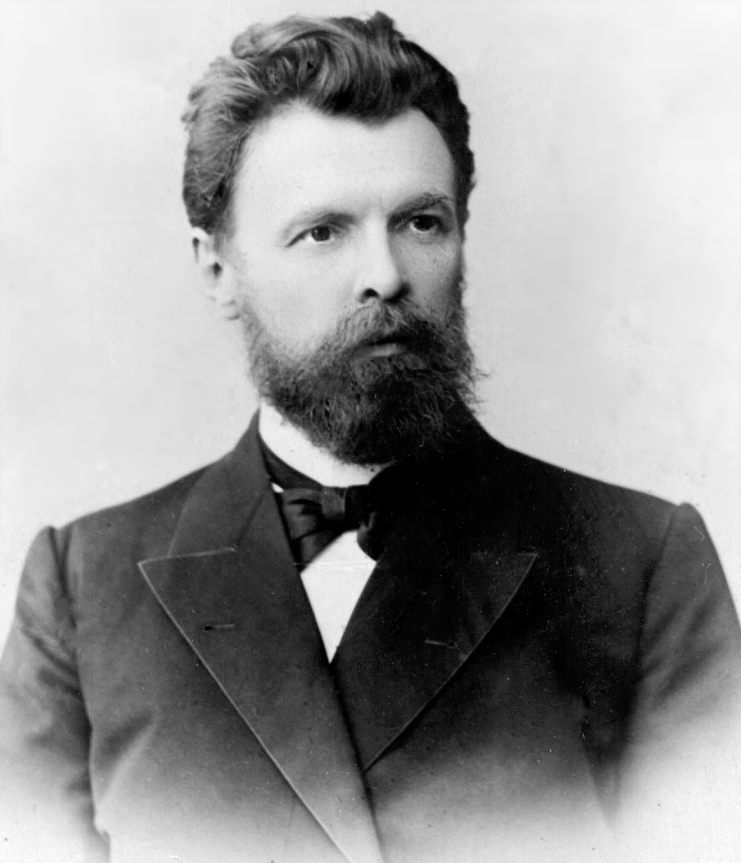 Alexei Petrovich Pavlov (1854—1929). Soviet geologist and paleontologist.